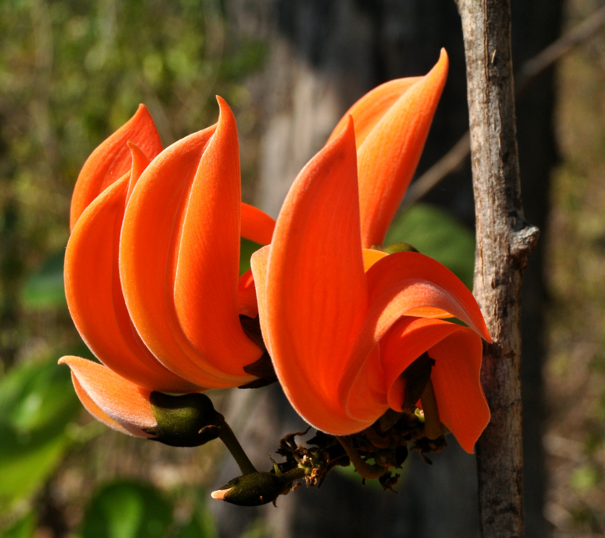 Butea monosperma flowers. Baluran National Park, East Java, Indonesia.